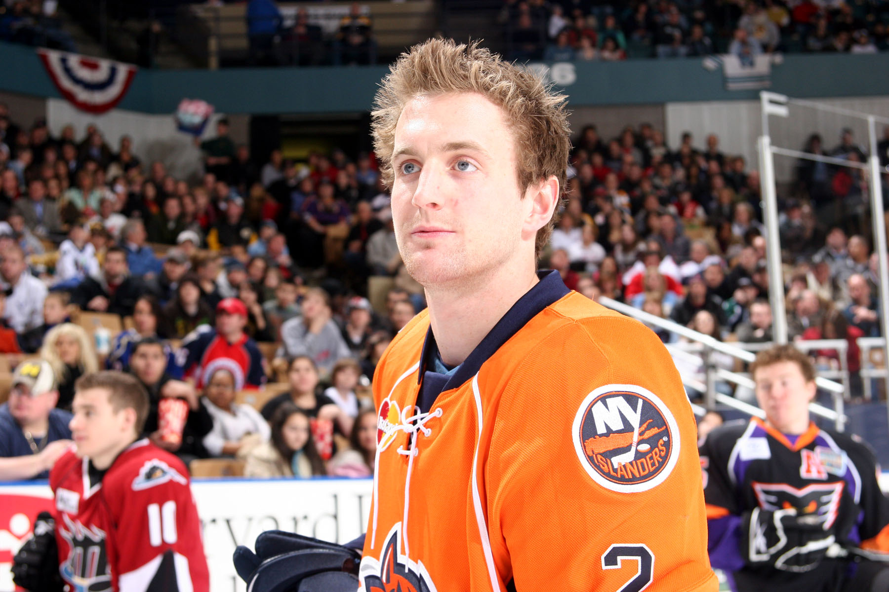 JustSports Photography/AHL